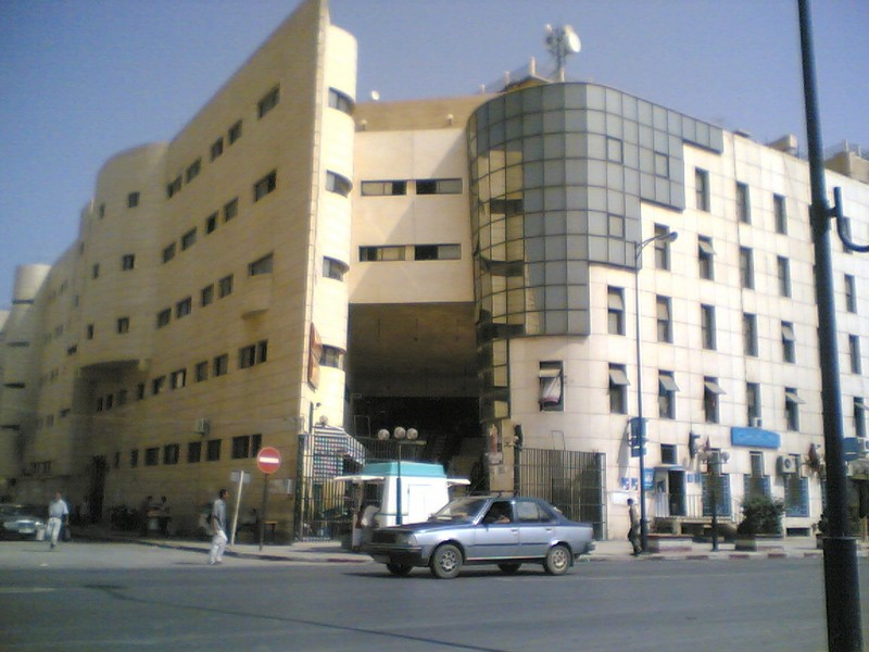 Free image